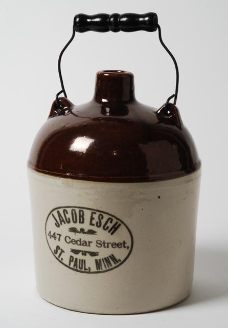 Original Image taken from The Minnesota Historical Society on Flickr Stamp on crock says "Jacob Esch, 447 Cedar Street, St. Paul, MINN." Item notice in MNHS collections